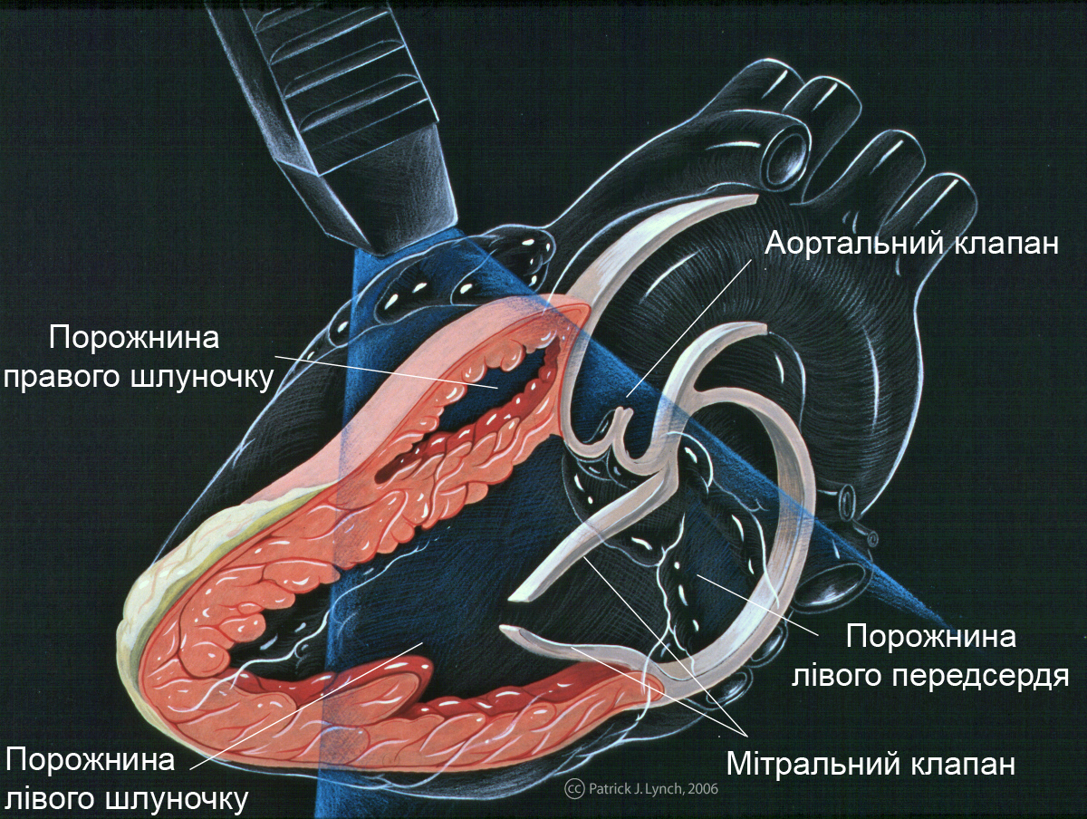 Heart normal LPLA left parasternal long axis echocardiography view